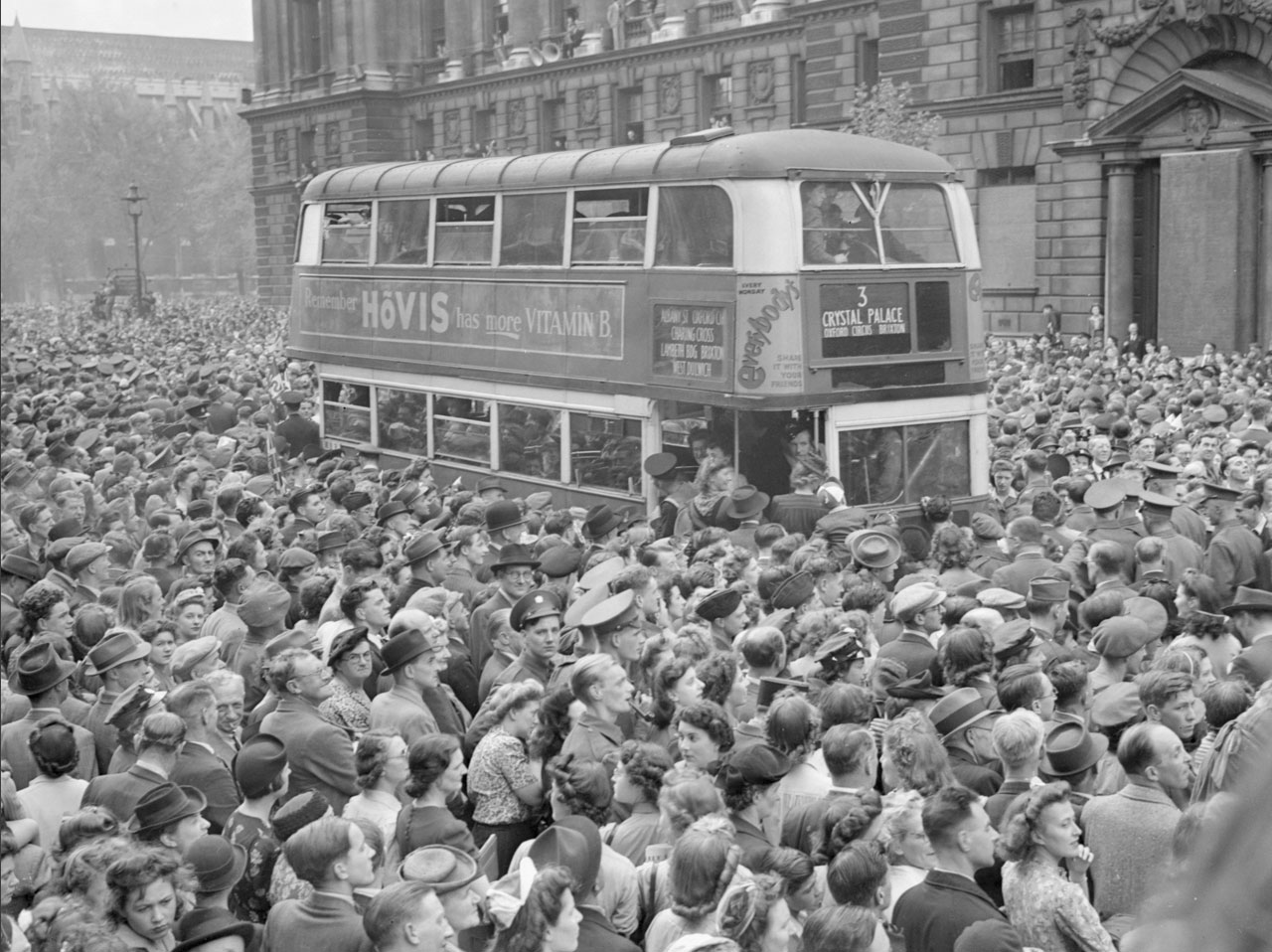 Ve Day Celebrations in London, England, UK, 8 May 1945 A number 3 double-decker bus slowly pushes its way through the huge crowds gathered in Whitehall to hear Churchill's Victory speech and celebrate Victory in Europe Day. The crowd is a mix of service personnel, civilians and children. Behind the bus, people line the balconies of the buildings along the street, and in the background, Westminster Abbey can be seen.